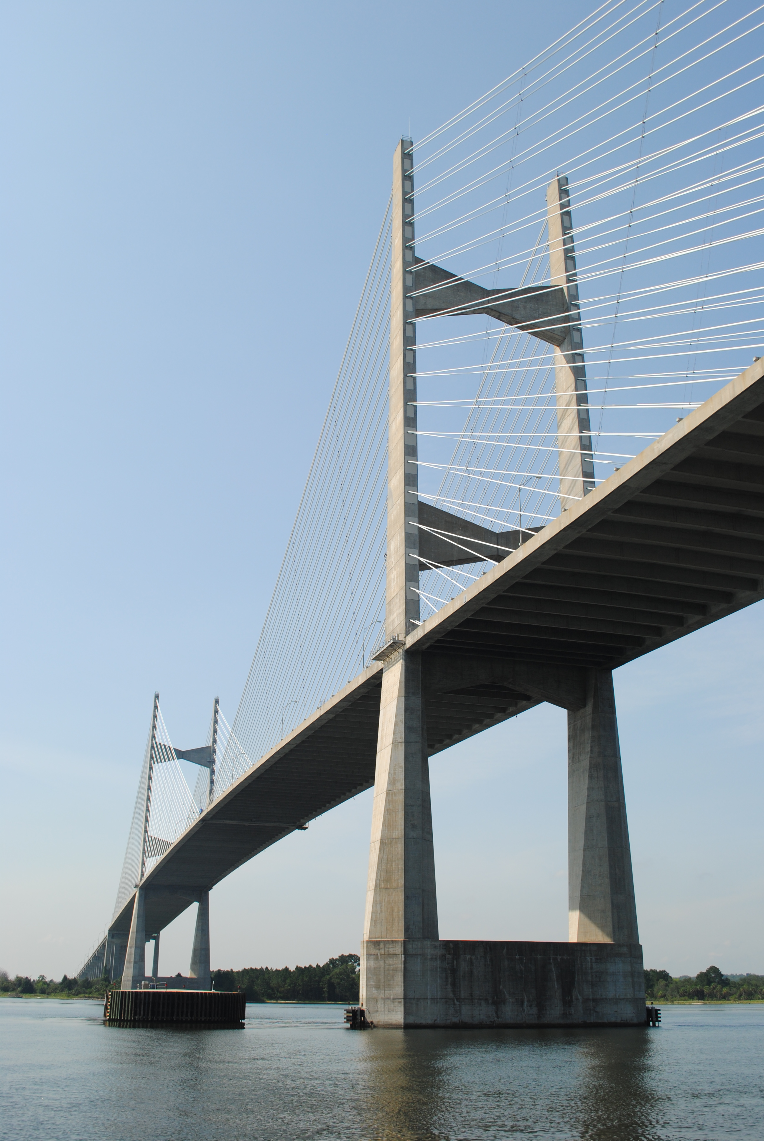 Dames Point Bridge